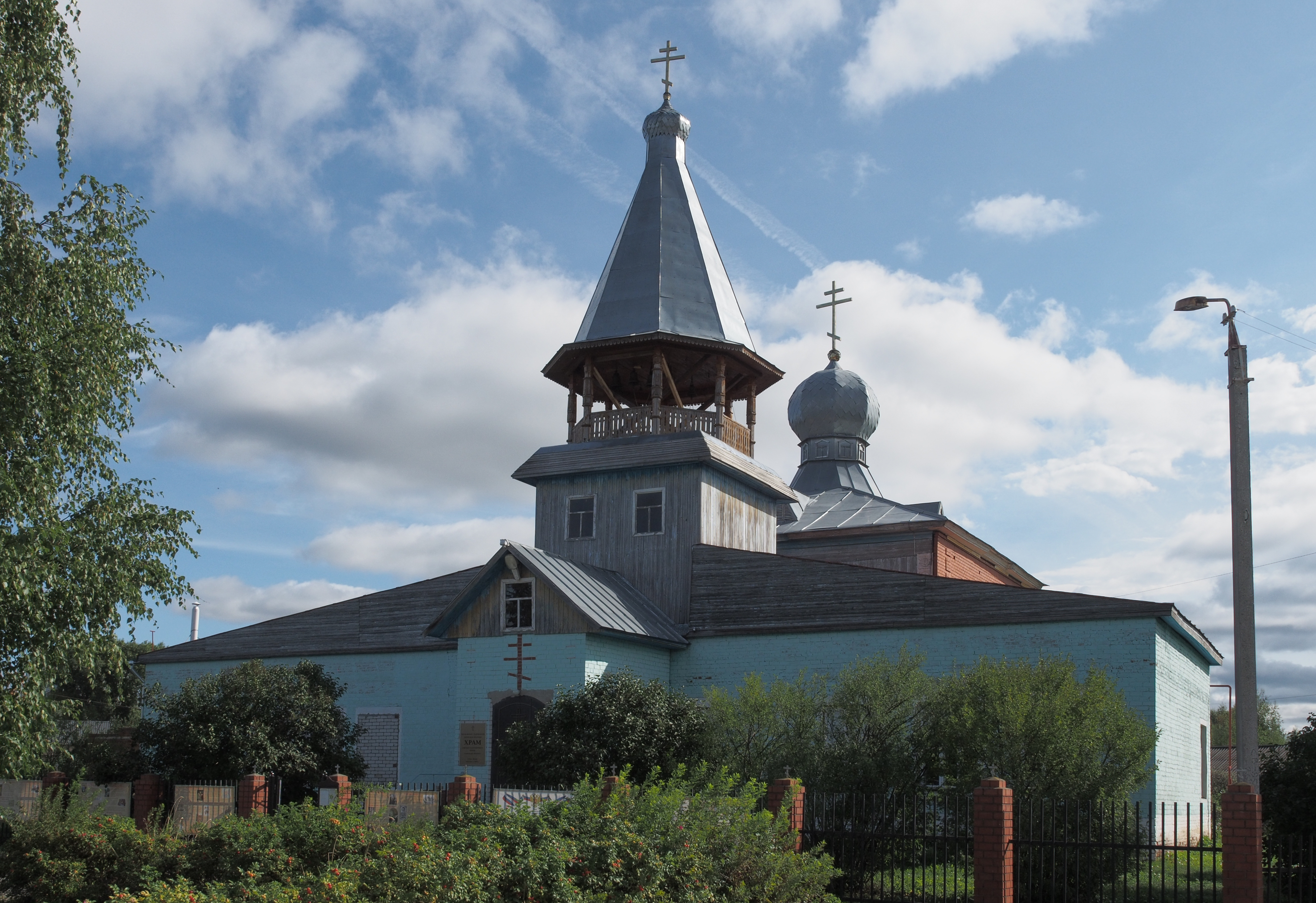 Church of Saint Alexander Nevsky in Ust-Kathka